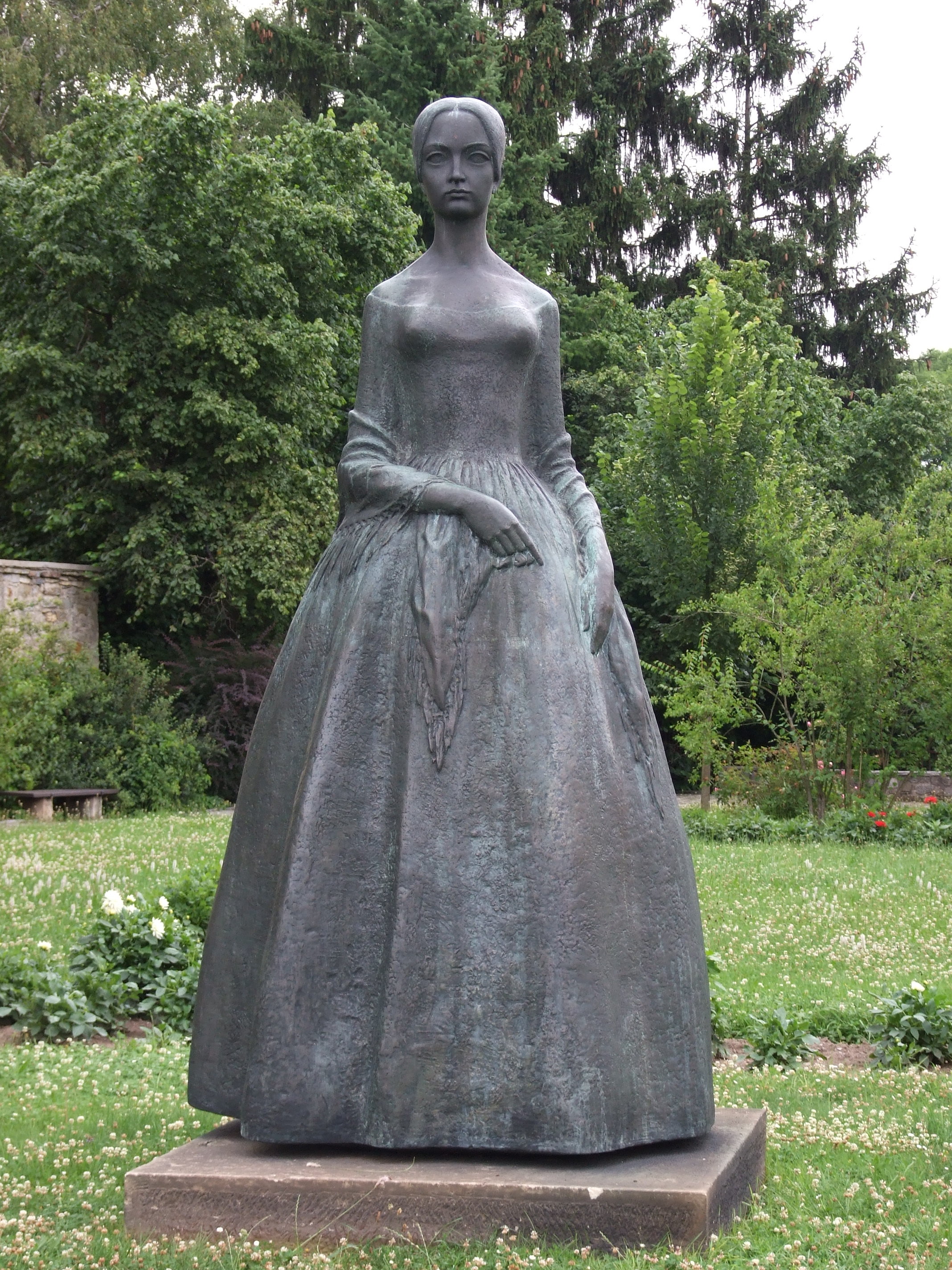 Muzeum Boženy Němcové - Božena Němcová statue